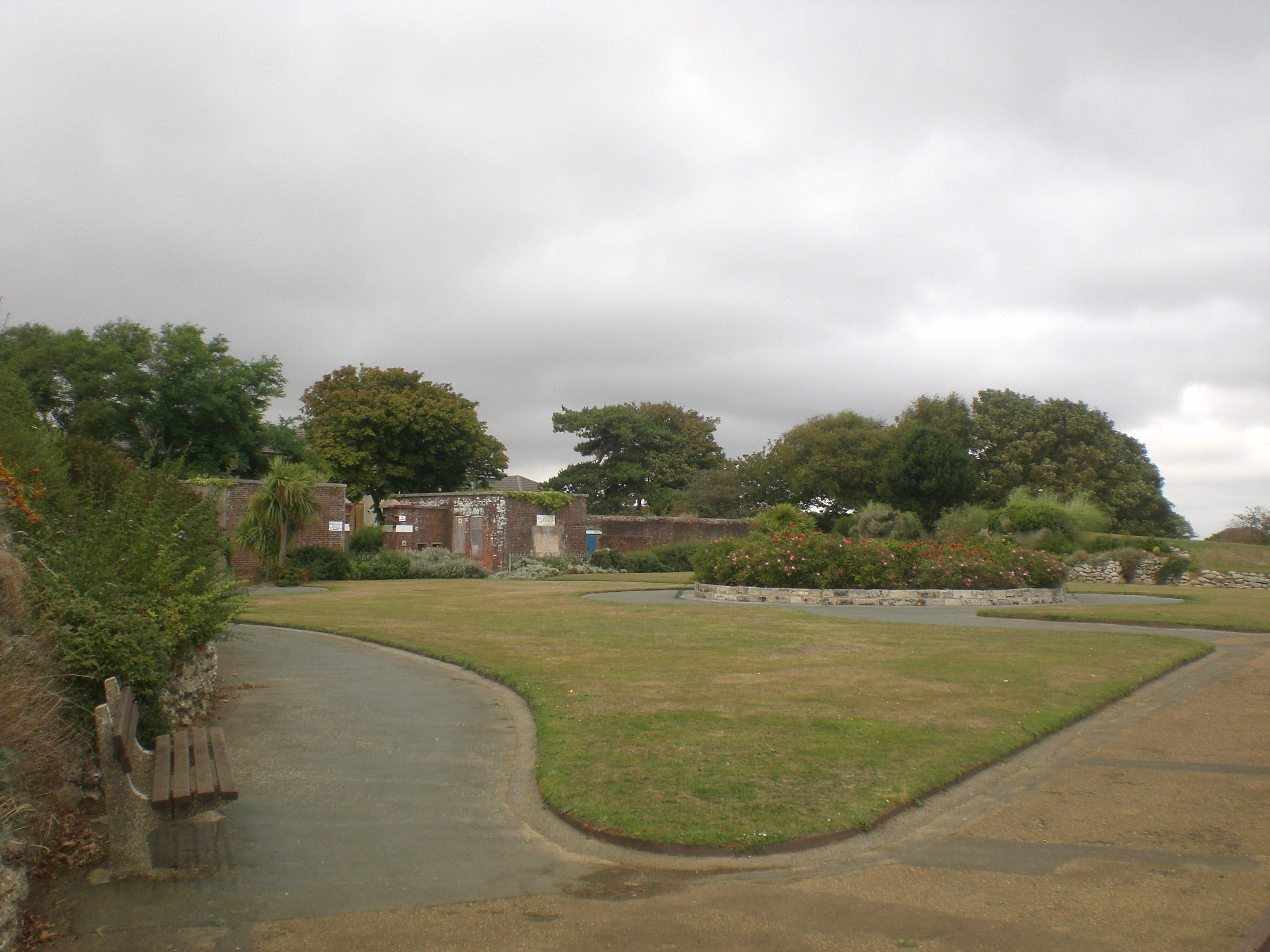 The garden created on the site of the Sandown Barrack Battery in Sandown on the Isle of Wight.